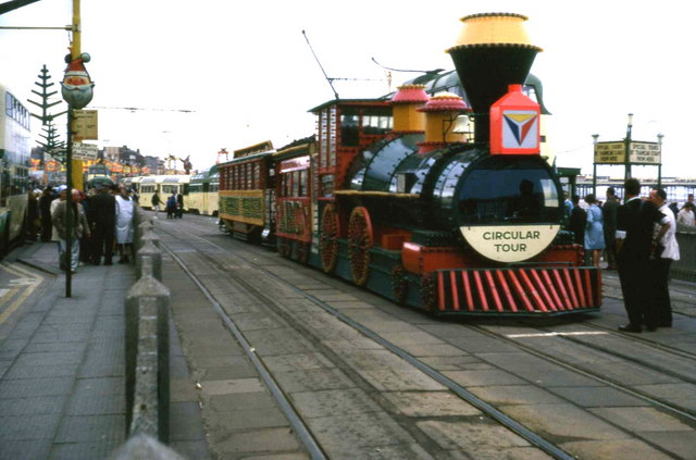 illuminated Western Train Circular Tour Tramcar, Blackpool Promenade